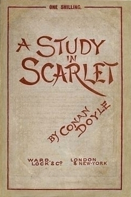 Cover of the first edition of the book "A Study in Scarlet" by Unknown